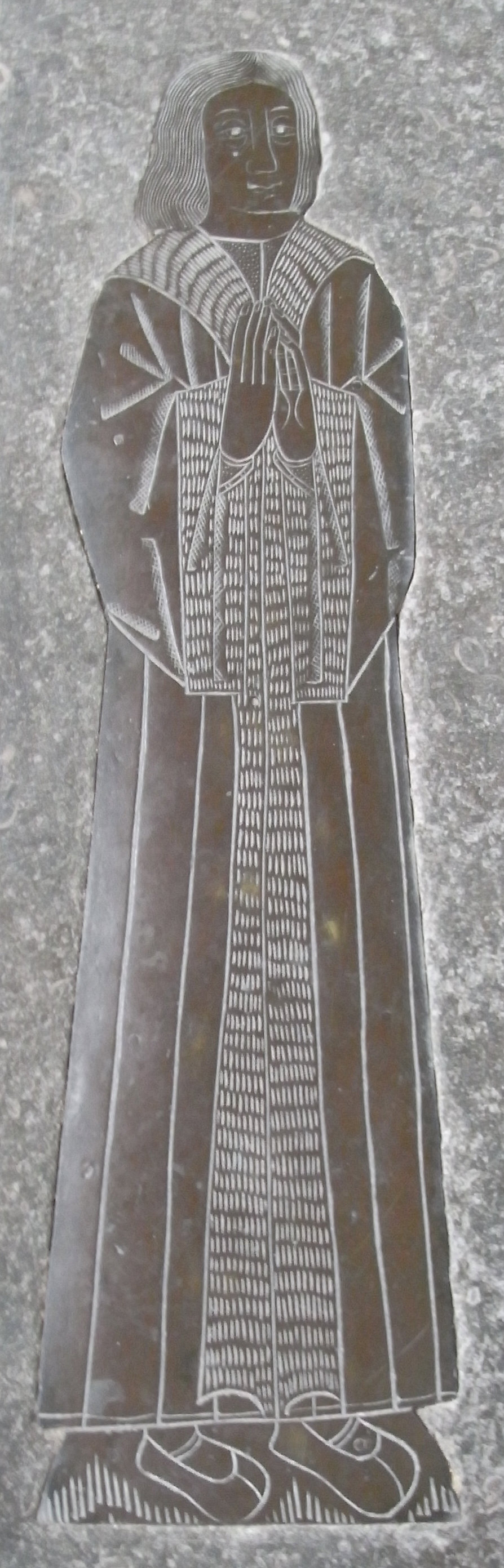 Monumental Brass of John Twynyho at Lechlade Church, Glos. Set in floor of north aisle.